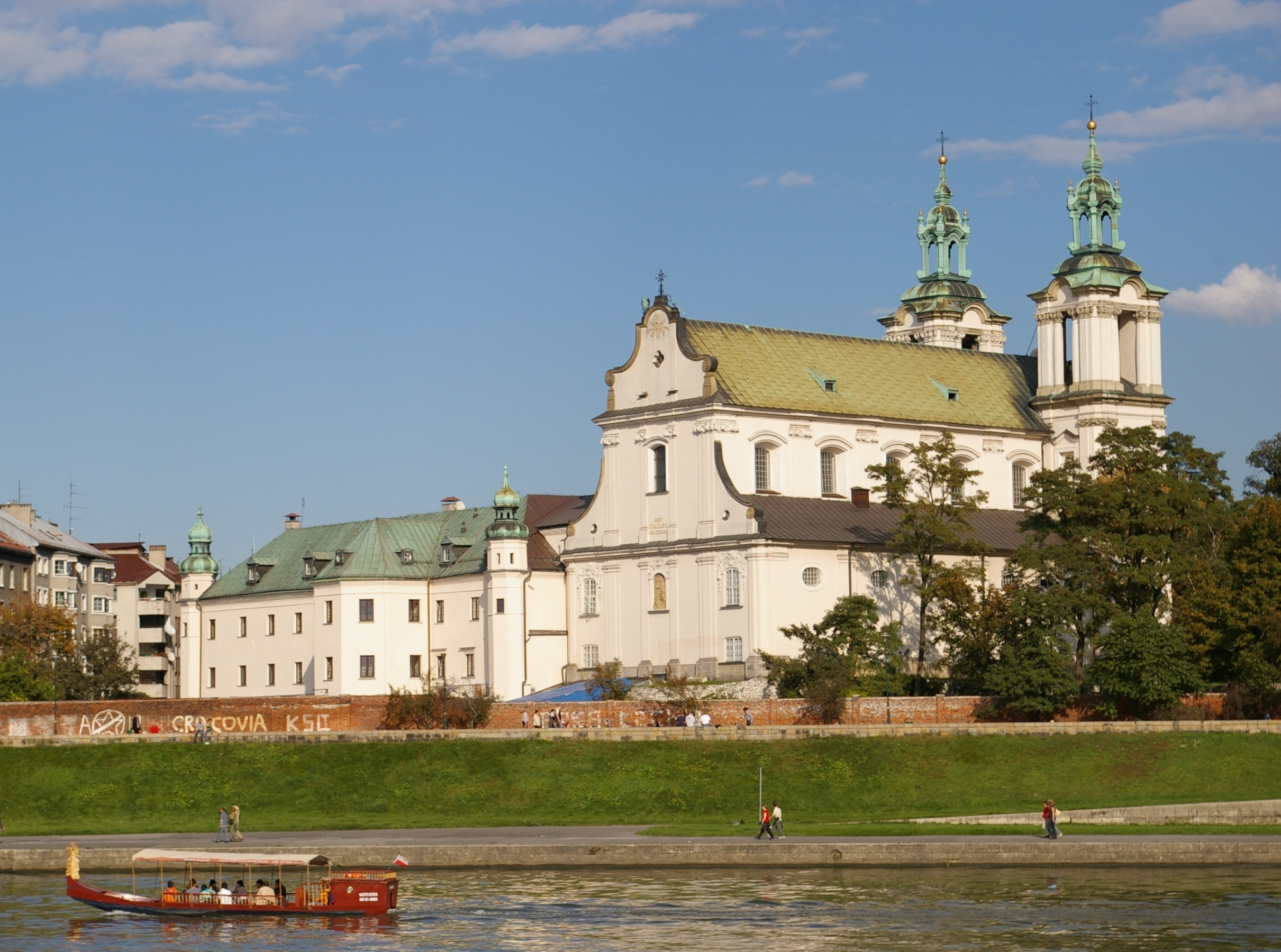 St. Stanislaus church in Kraków